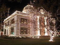 Ashdown courthouse lights. Lit up on Thanksgiving night through the Christmas holiday.